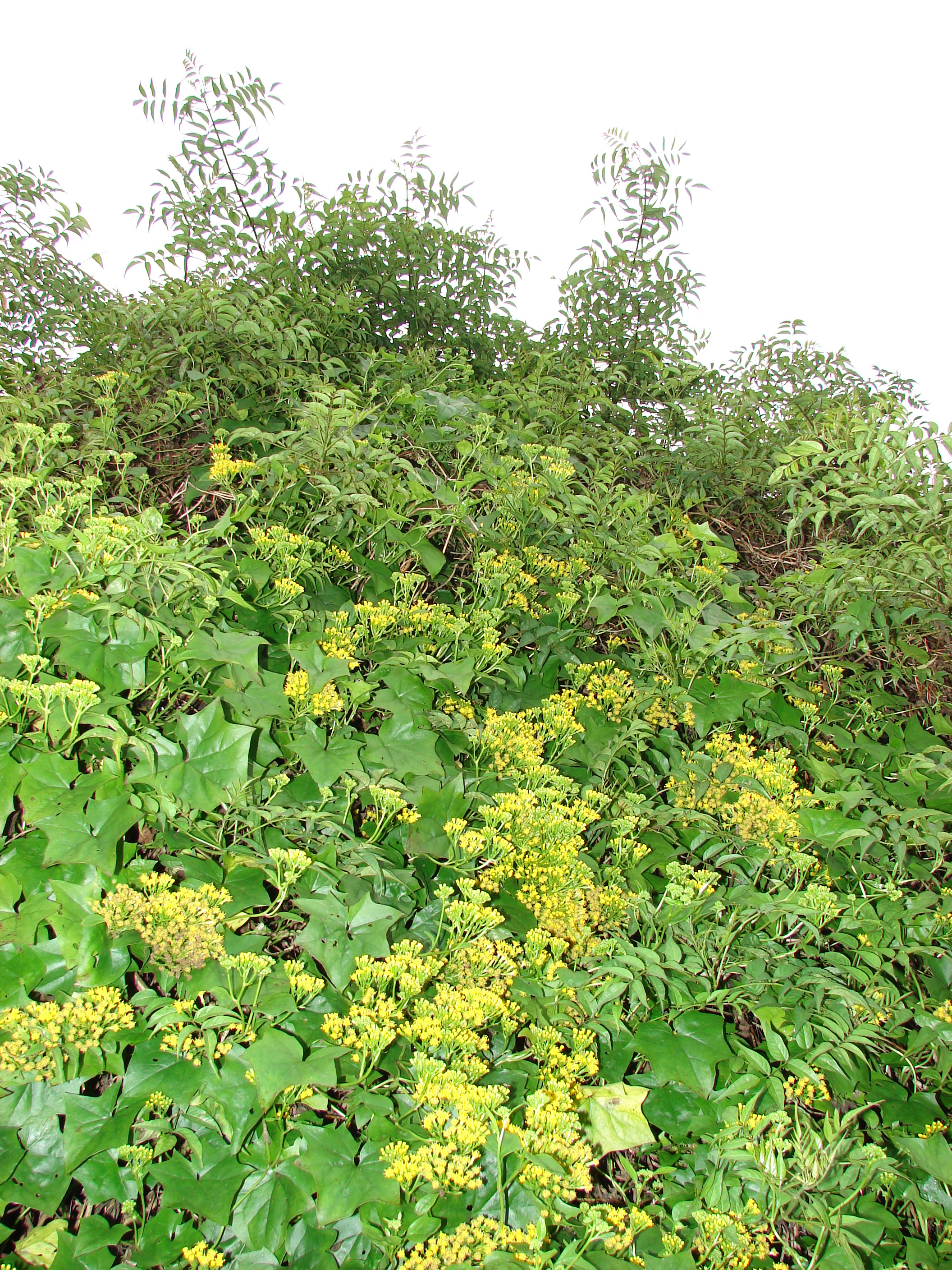 Delairea odorata (flowers and leaves). Location: Maui, Kula